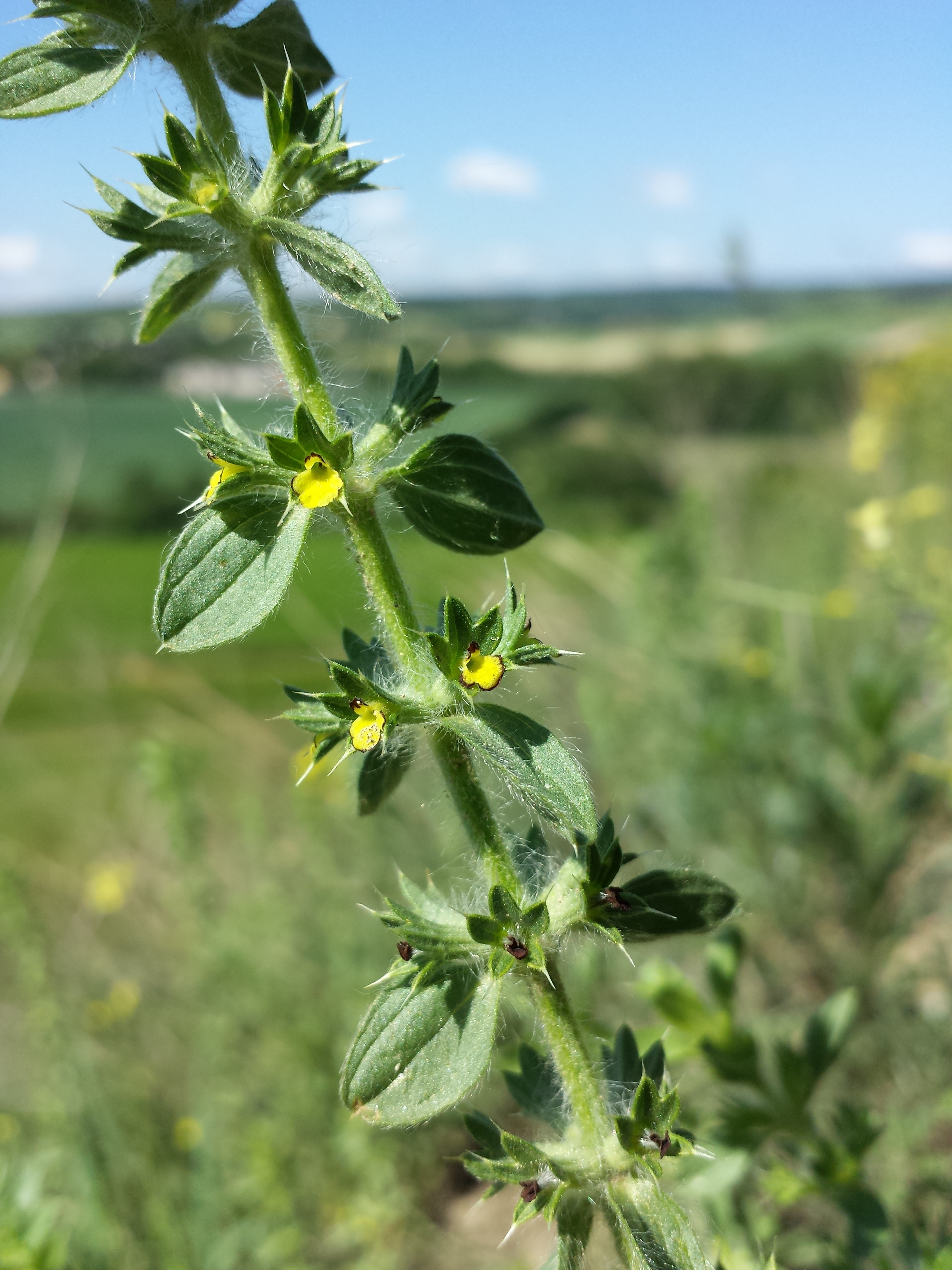 Florescence Taxon: Sideritis montana (sensu Fischer et al. EfÖLS 2008 ISBN 978-3-85474-187-9) Location: Haulesbergen, Ulrichskirchen-Schleinbach, district Mistelbach, Lower Austria - ca. 200 m a.s.l. Habitat: dry grassland over Loess